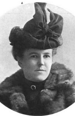 A young white woman wearing a fur coat, a high-necked dark blouse, and a black hat with a large bow.